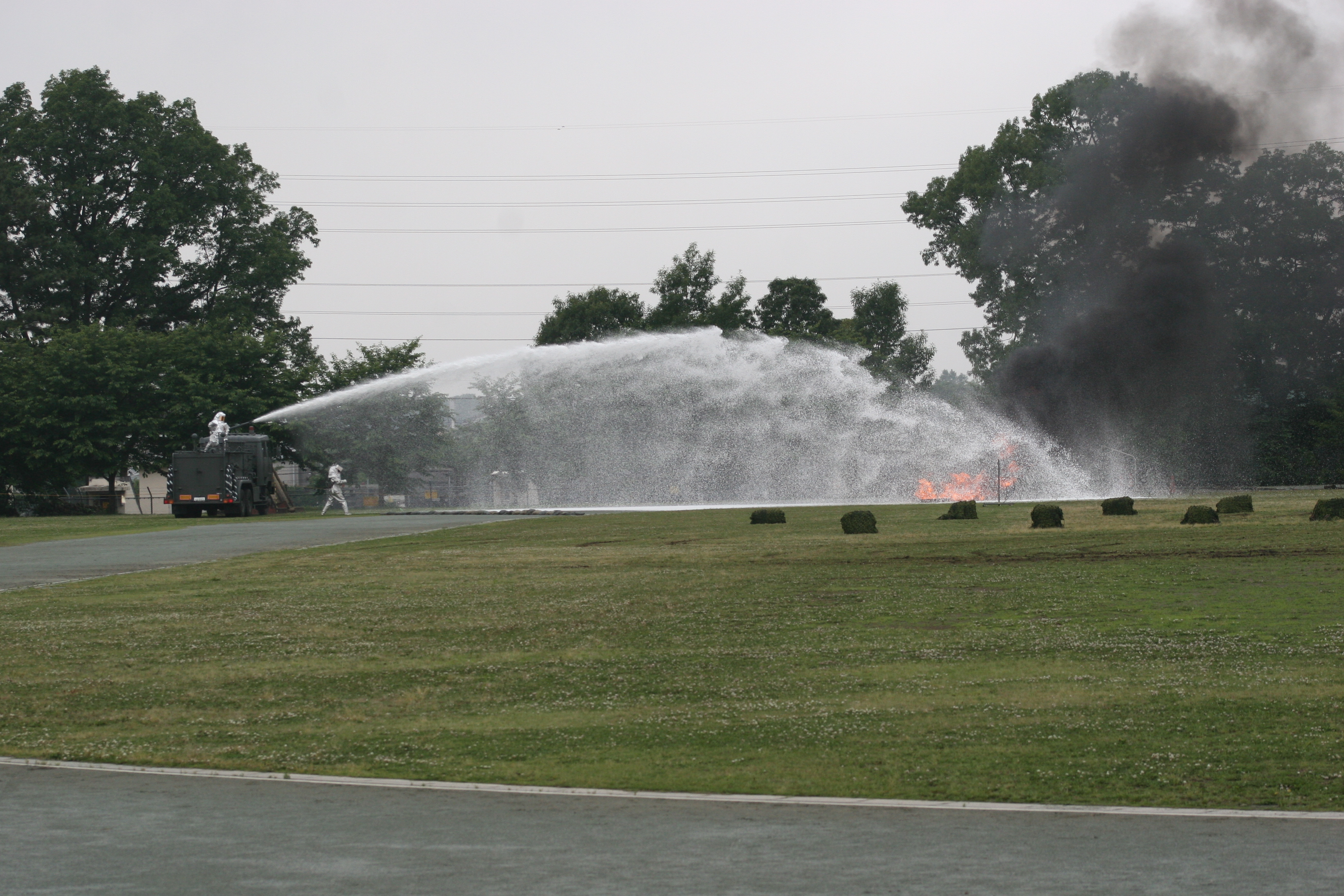 JGSDF chemical fire engine in exhibition at Camp Omiya.